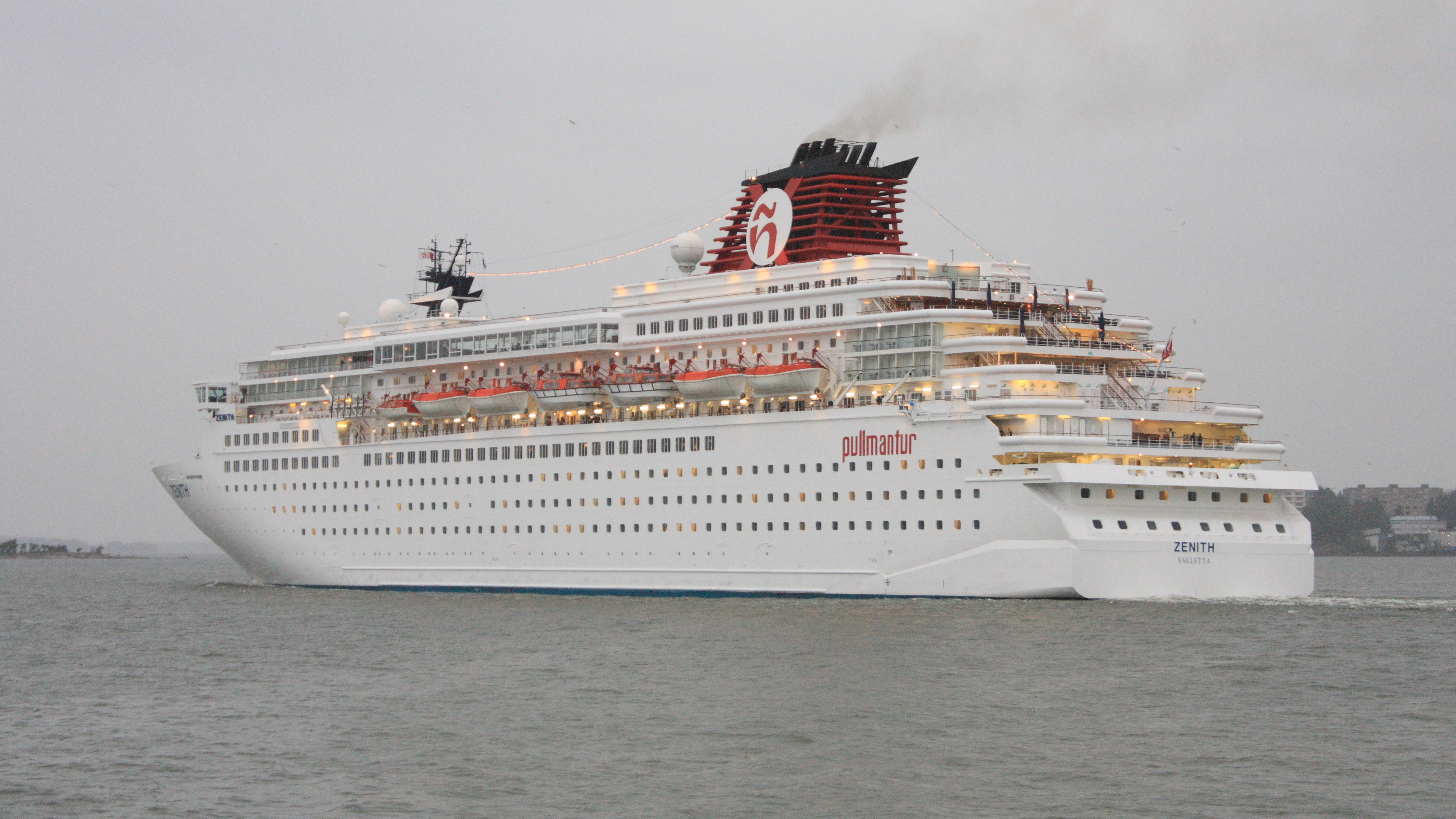 MV Zenith is leaving Helsinki in rain. IMO Number: 8918136 MMSI Number: 256561000 Callsign: 9HXM8 Length: 208 m Beam: 28 m